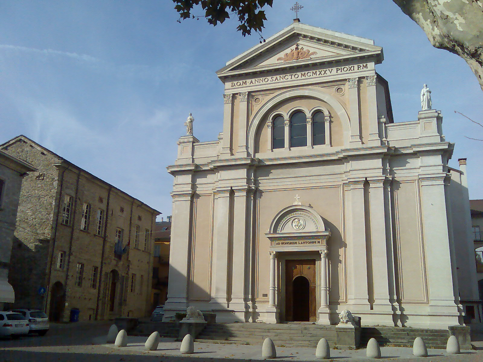 Italy, province of Parma, Borgo val di Taro, square II February with parochial church of Saint Antonino and the old hospital, the home of the Comunità Montana delle valli del Taro e del Ceno.